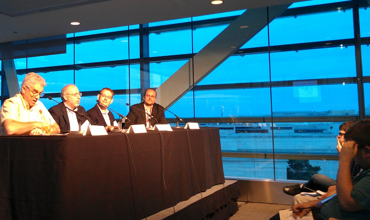 Panelists for The Sponsored Point of View, a panel about conflict of interest in health and medicine in Washington DC in 2012. Left to right: Dr. John Santa, Dr. Roy Poses, Charles Ornstein, and Dr. Daniel Mietchen